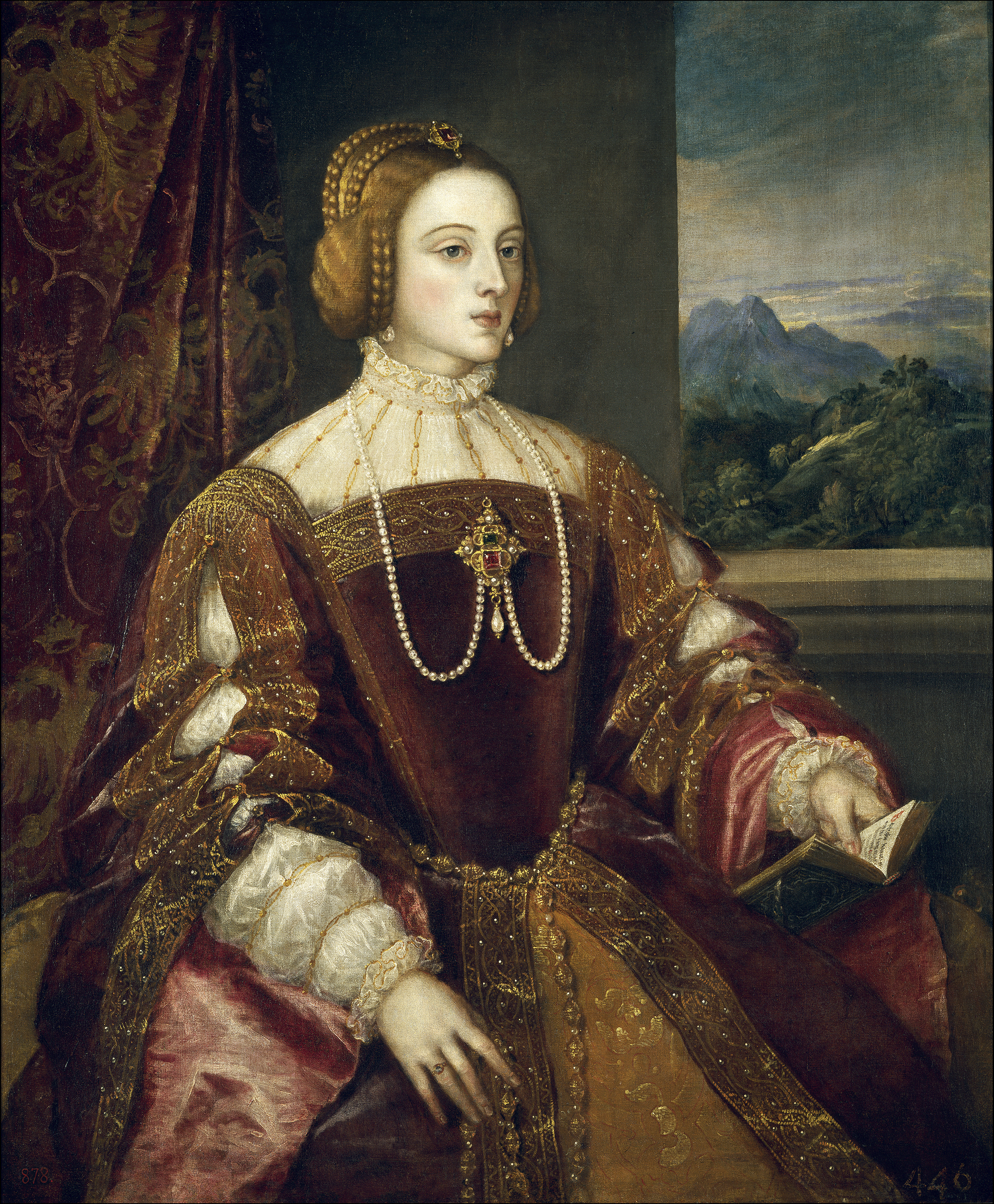 Titian, Empress Isabel of Portugal, 1548, oil on canvas, 117 x 98 cm, Prado museum (Madrid, Spain)